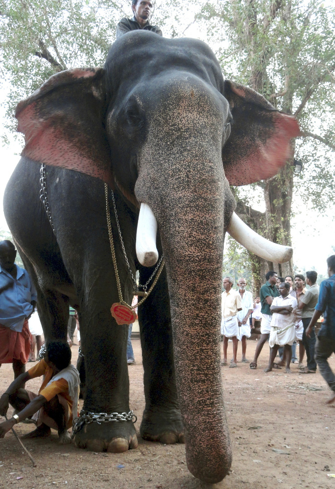 Thiruvambady Shivasundar is a famous elephant belonging to Thiruvambady temple, Thrissur, Kerala. This photo clicked during Arattupuzha Pooram 2012.